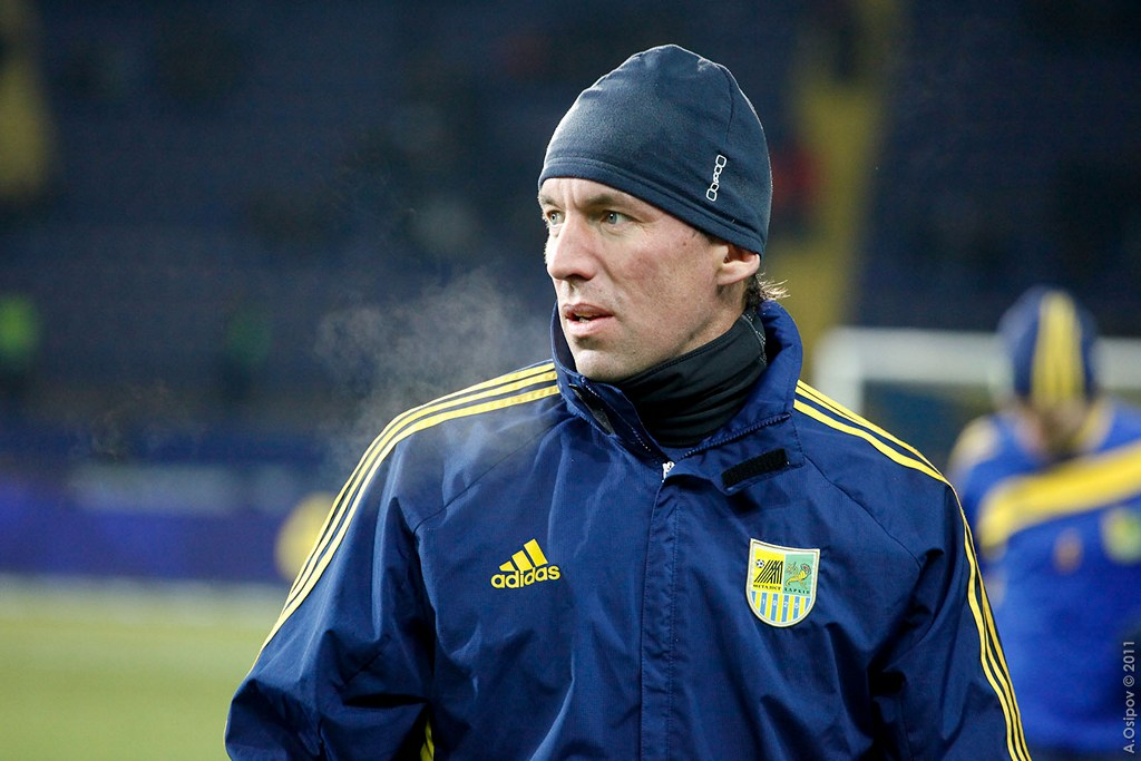 FC Metalist Kharkiv 4-1 FK Austria Wien José Ernesto Sosa scored one and set up two as the Ukrainian side sealed their place in the last 32, though Austria Wien could yet join them.